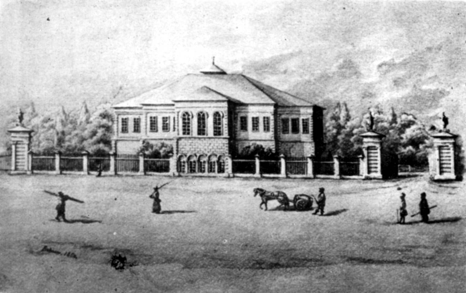 Early 19th century, Bucharest The house of the Great Ban Mihai Ghica 01